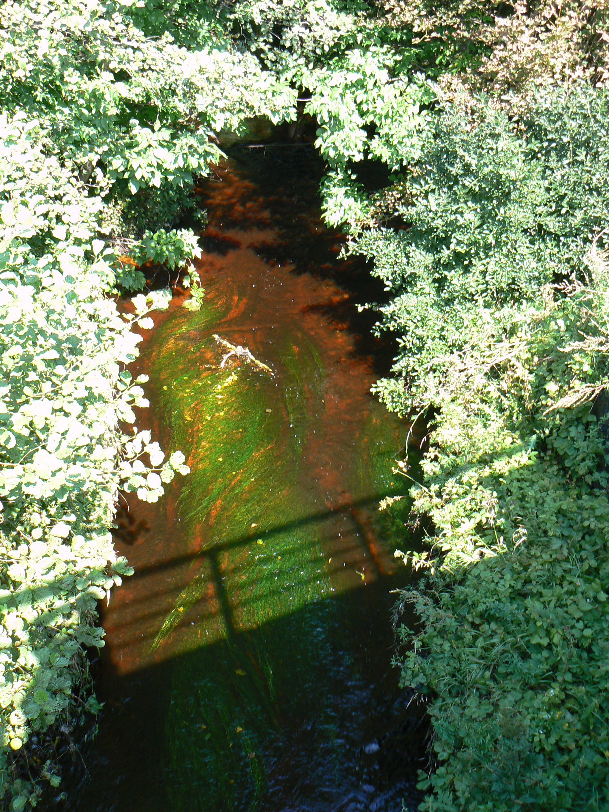 Šventoji (tributary of Němen) near Pašventys